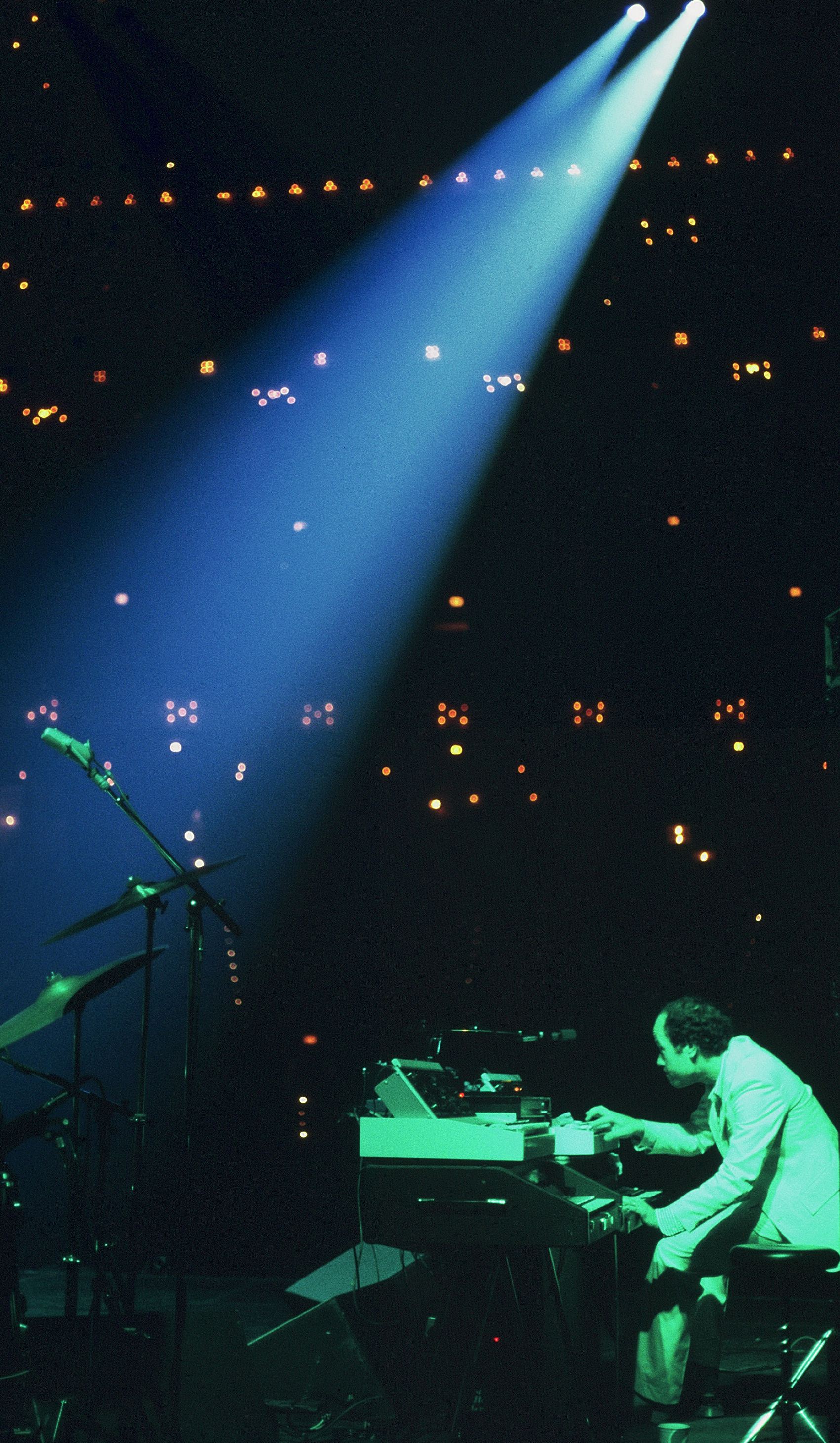 Jan Hammer